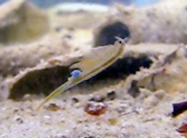 Branchipus schaefferi